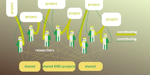 A sketch outlining the basic idea of the working method in Kitchen Budapest.